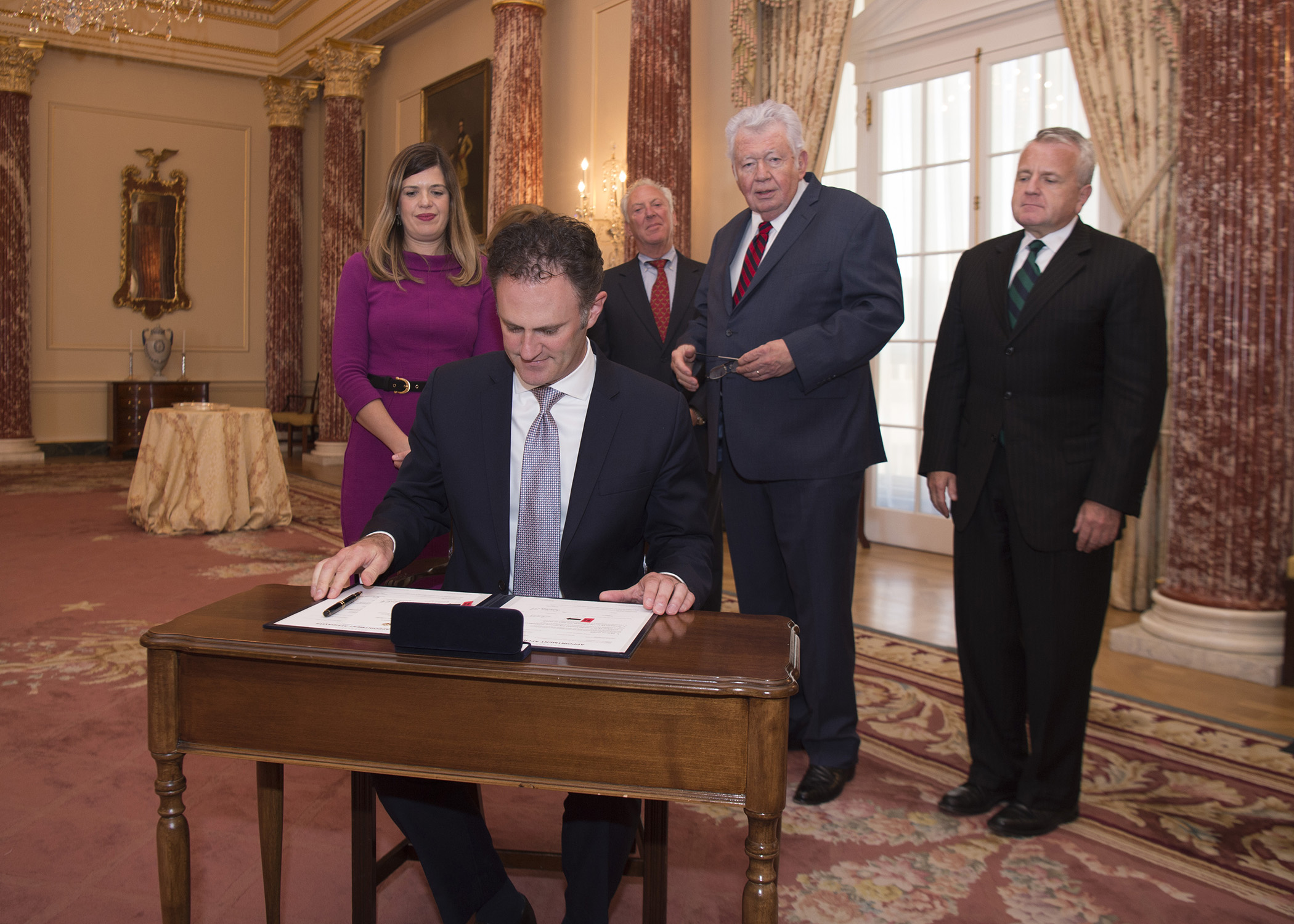 Nathan A. Sales prepares to sign his appointment papers to become Ambassador-at-Large and Coordinator for Counterterrorism at the U.S. Department of State in Washington, D.C. on September 29, 2017. [State Department Photo/ Public Domain]